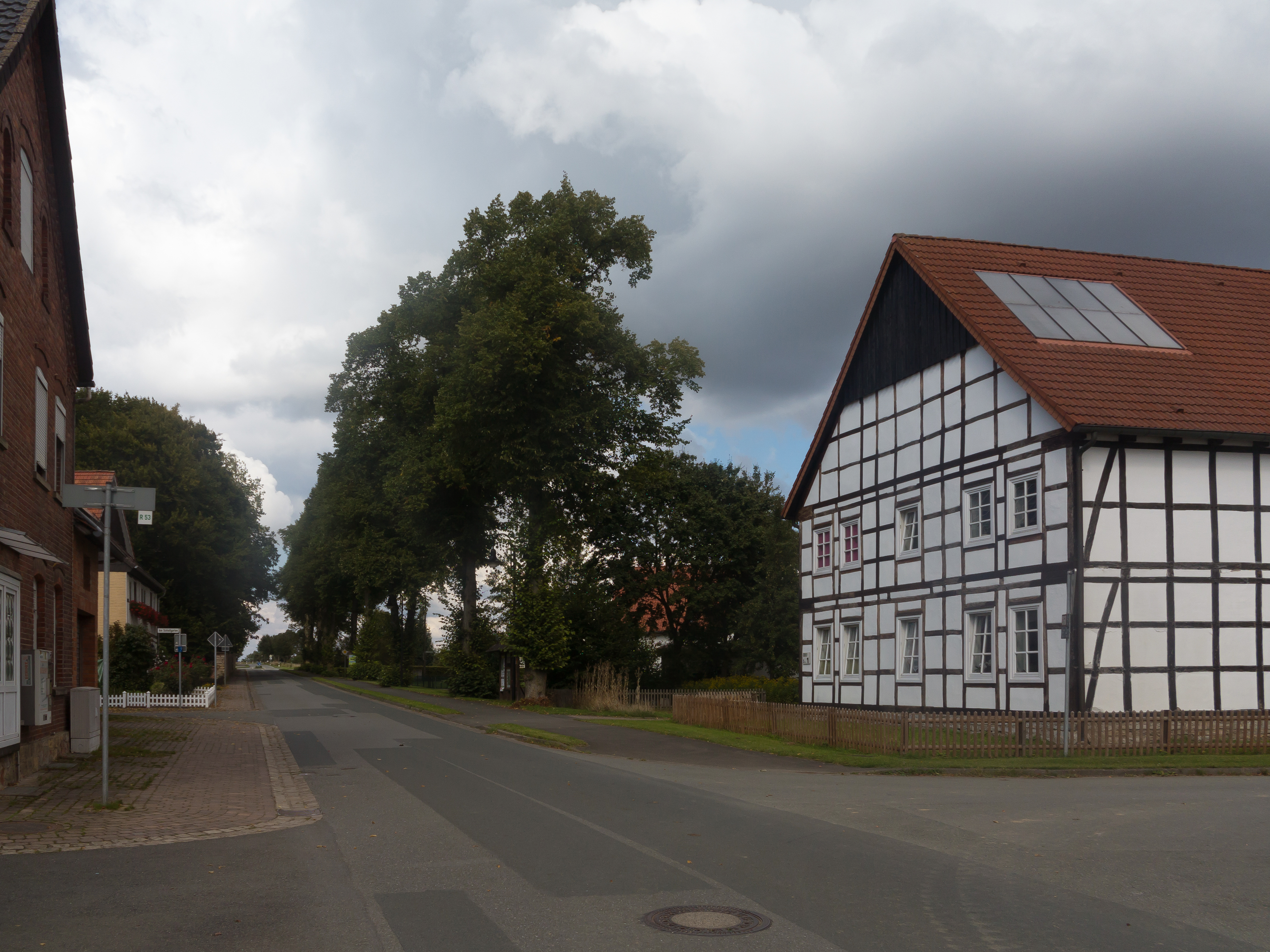 Holzhausen, view to a street